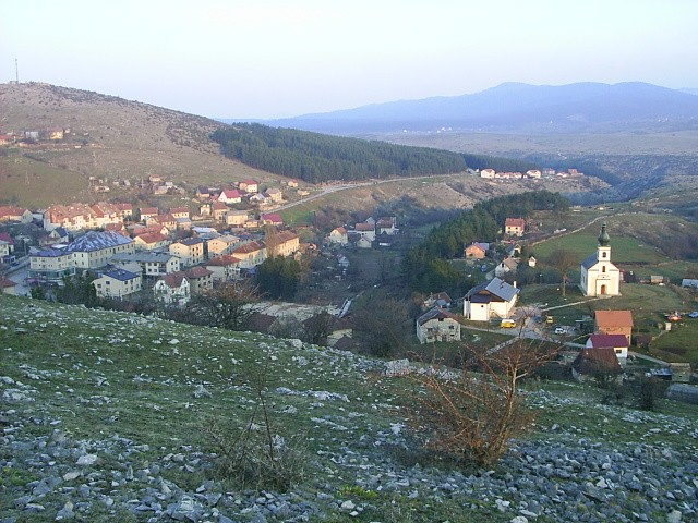 The town of Kalinovnik, Republika srpska, BiH